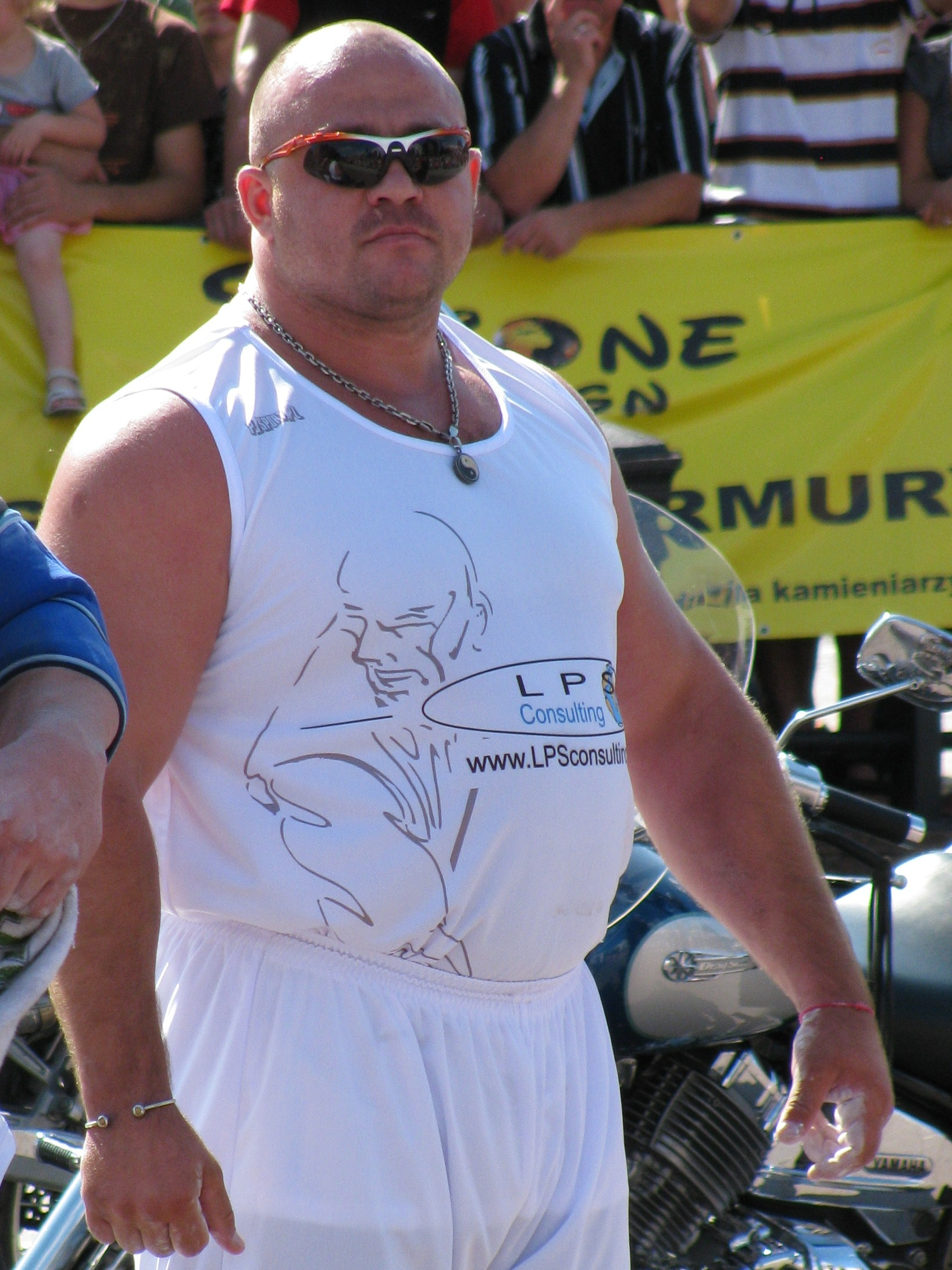 Konstiantyn Ilin - a strength athlete from Ukraine, Ukraine's Strongest Man 2009